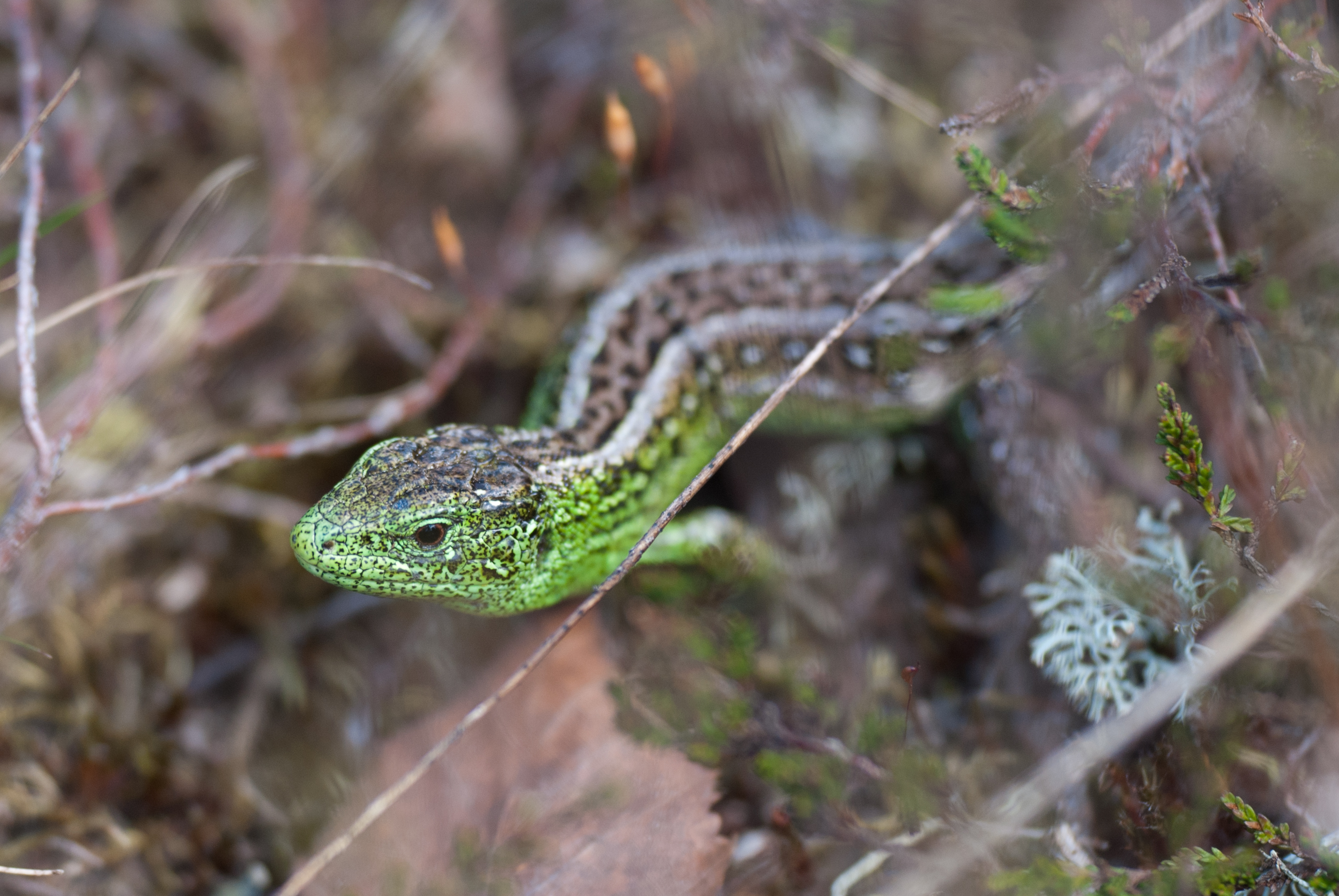 Sand lizard (Lacerta agilis)